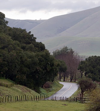 Along Foxen Canyon Road in Santa Maria Valley wine country — Santa Barbara County, California.